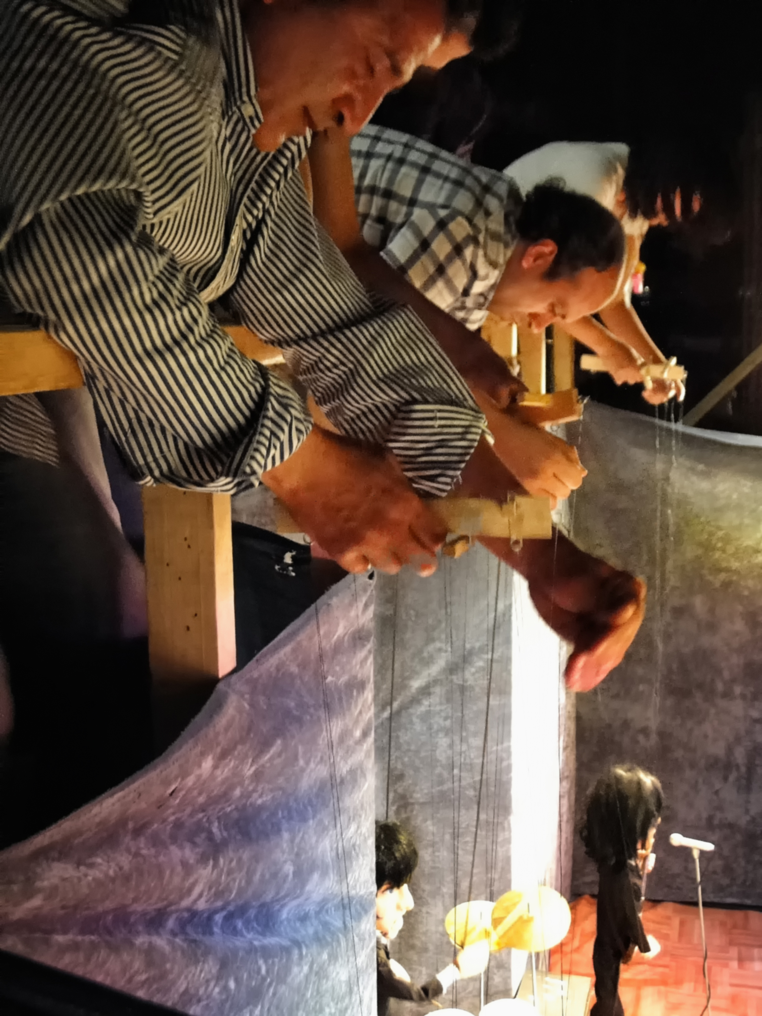 WIKI LOVES AFRICA 2019 THEME: PLAY This is an image with the theme "Play" from: Egypt